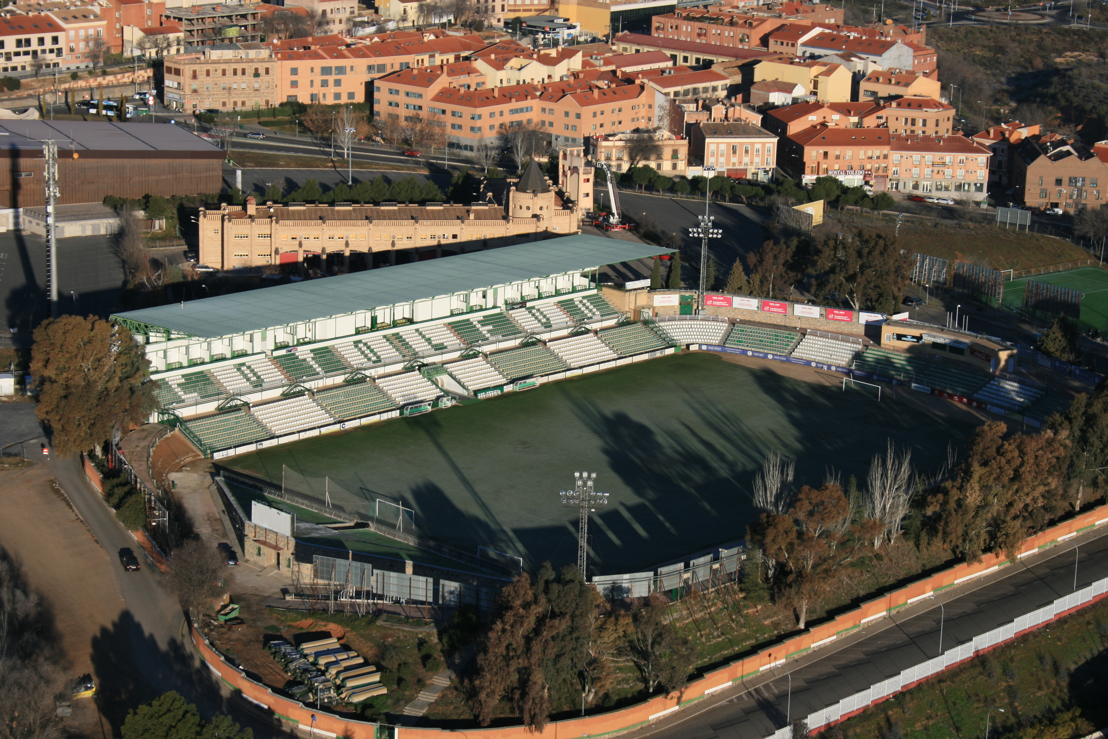 Salto del Caballo Stadium (Toledo, Spain)